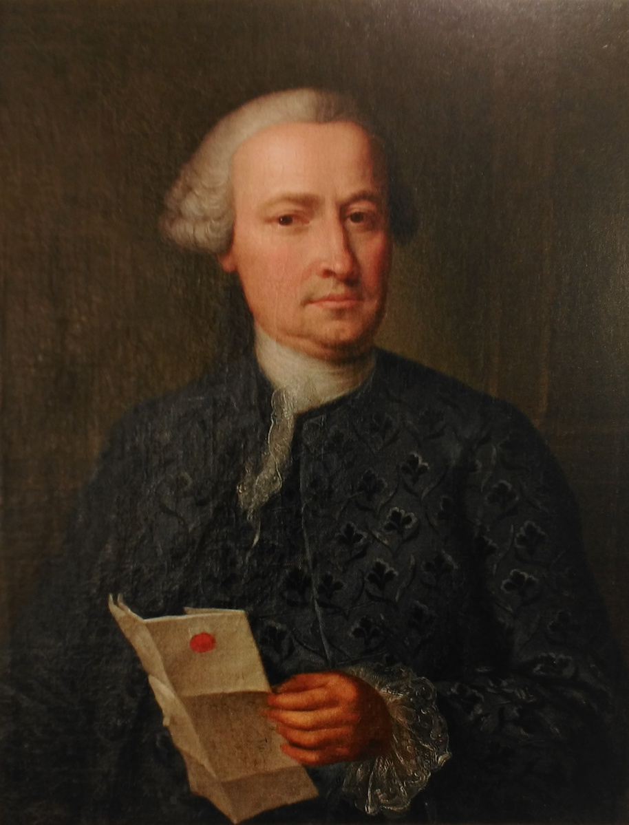 Portrait of Reinhard Iselin (1714-1781)